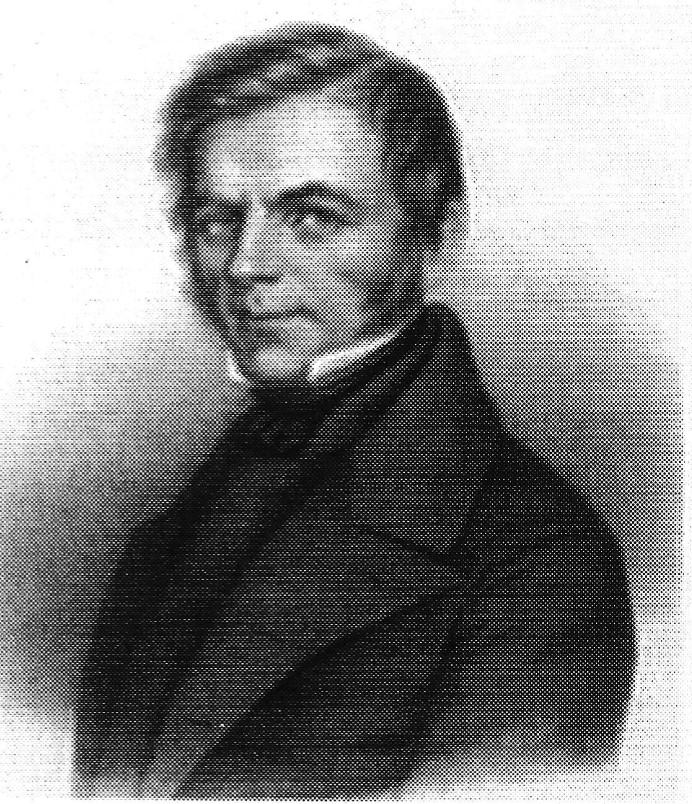 Anders Johan Sjögren (1794 – 1855)